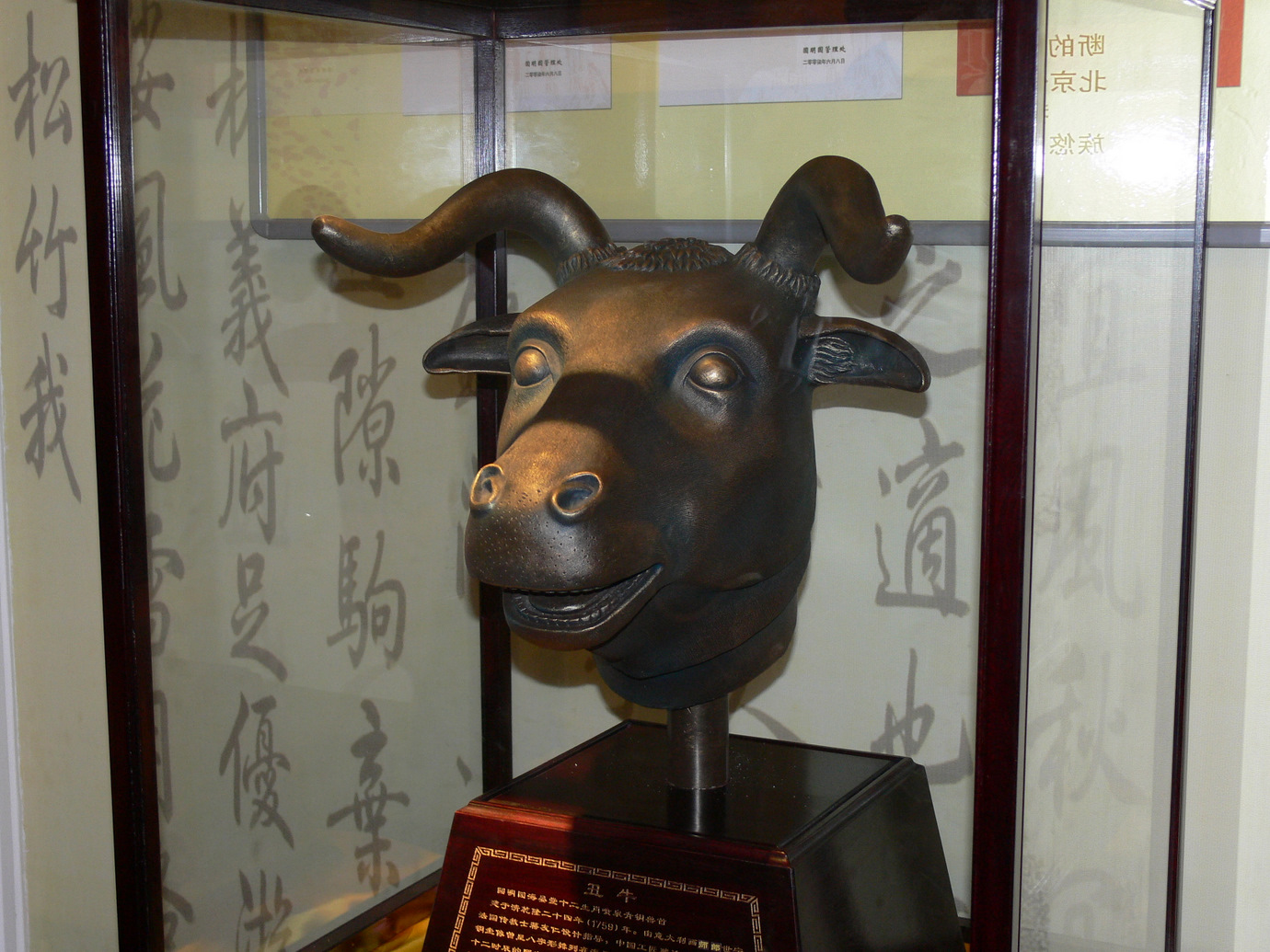 Bronze ox head model at Old Summer Palace